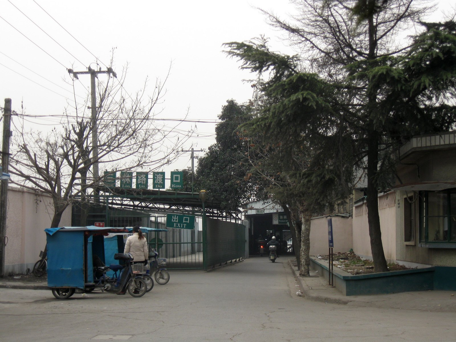 Sanlin Rd Ferry 2009